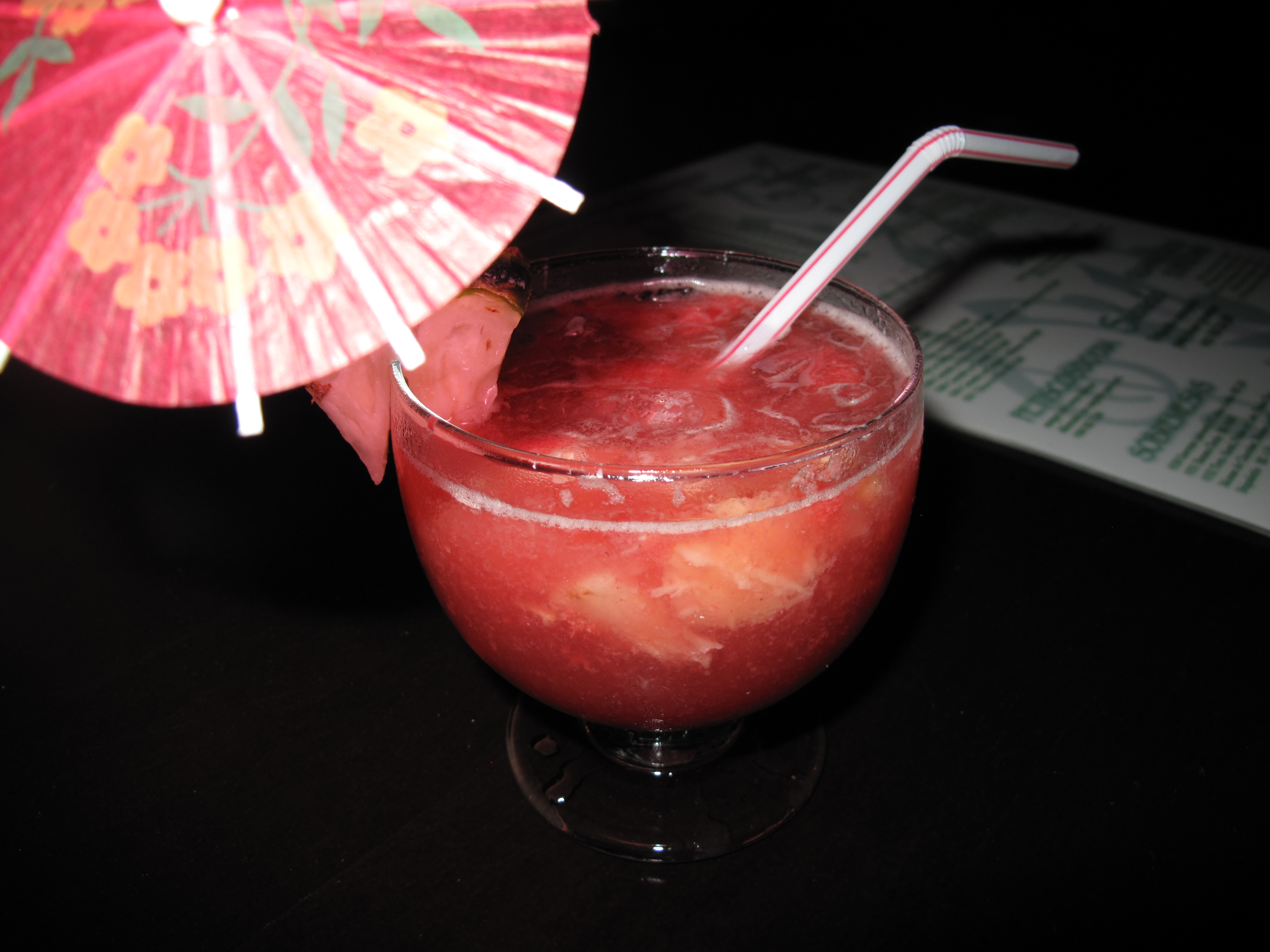 Brasilian drink Caipirinha (red fruits)